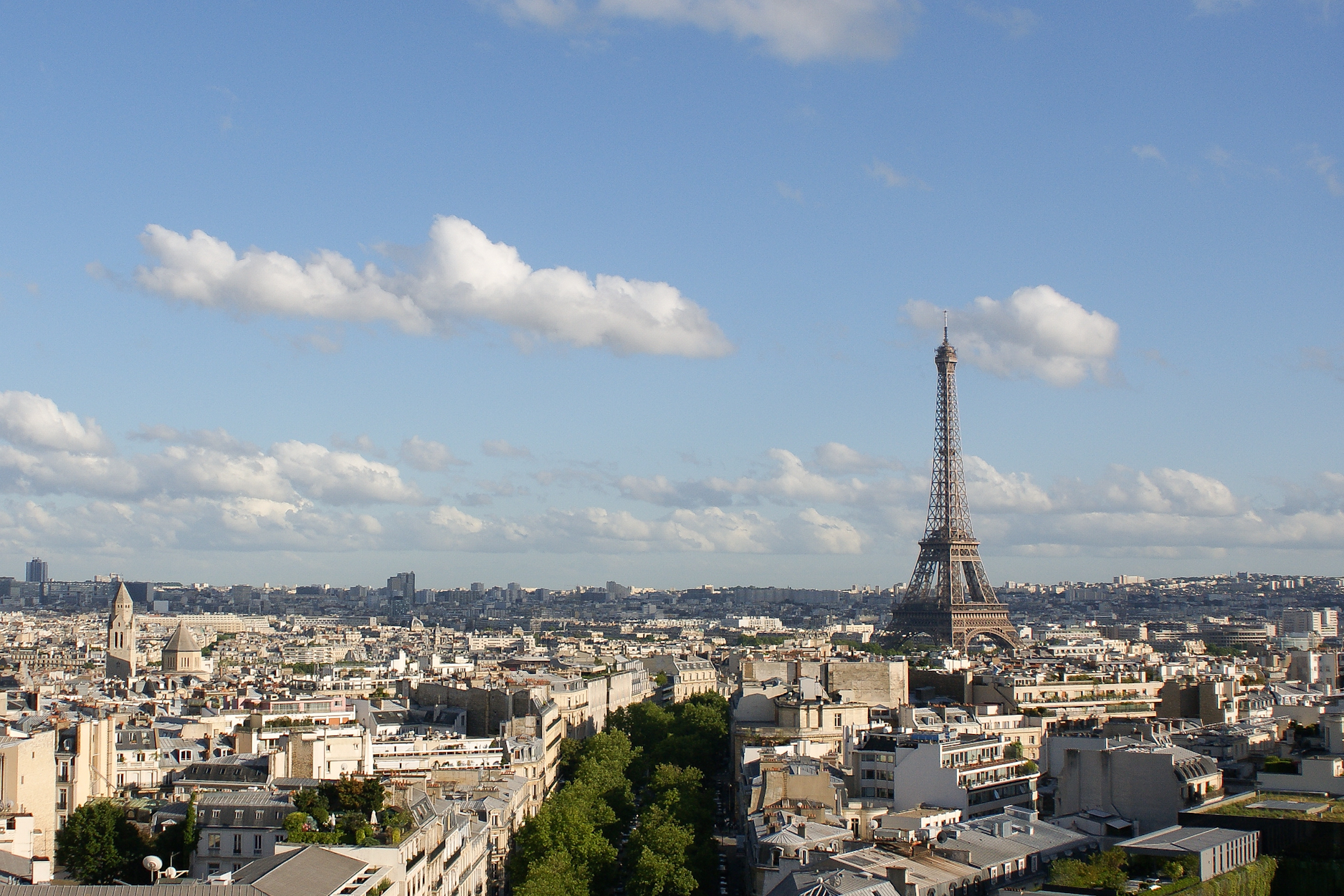 Eiffel Tower, seen from Arc de Triomphe